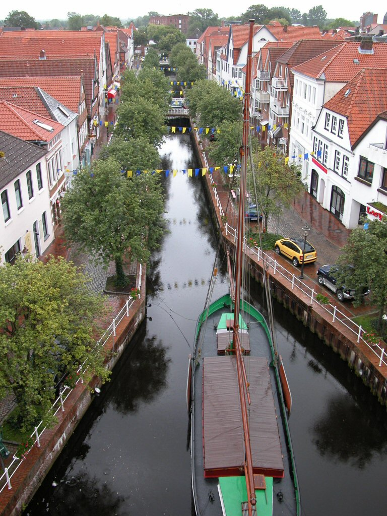 Harbour and Fleth in Buxtehude